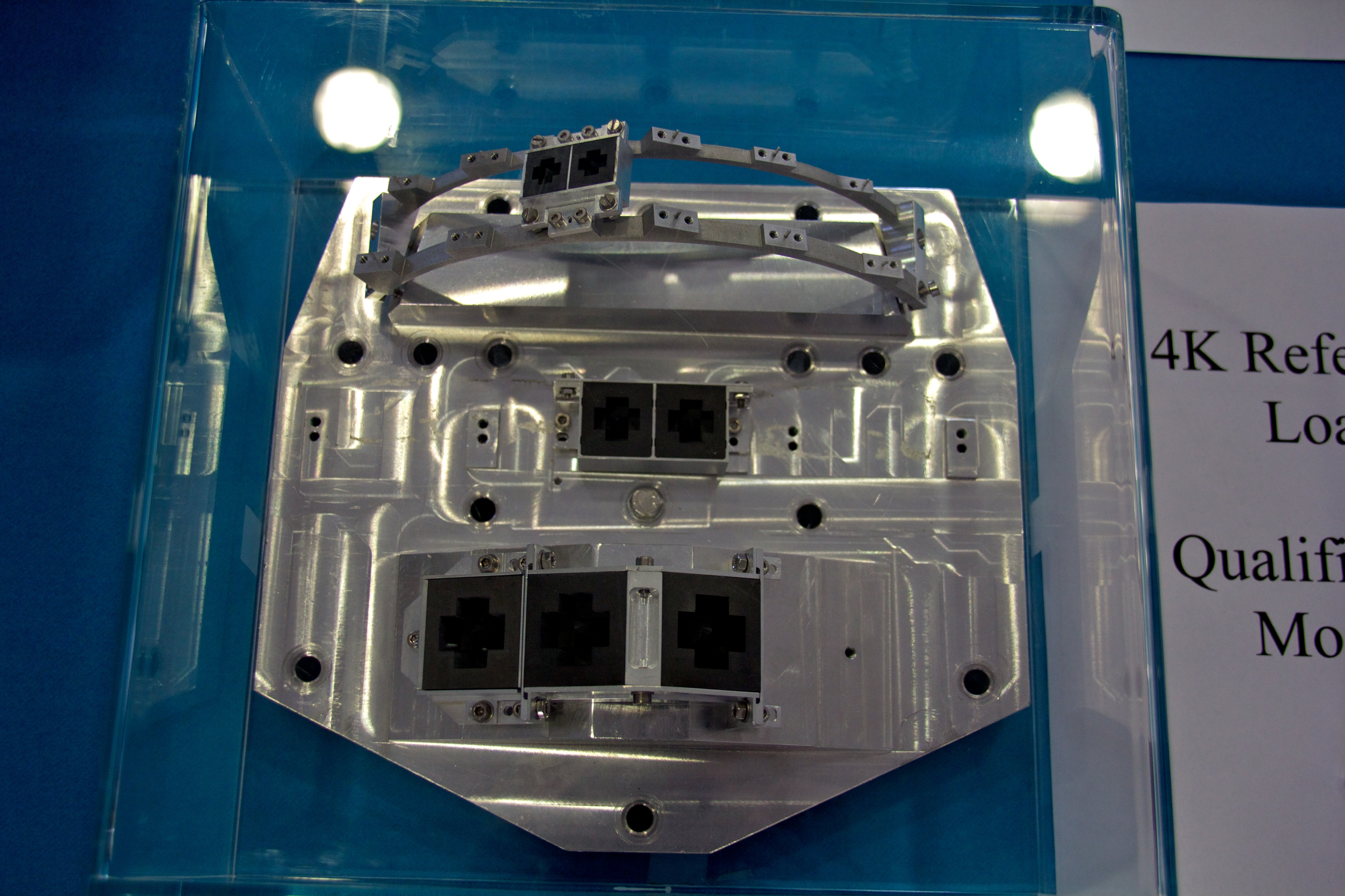 Planck 4K reference load - qualification model.